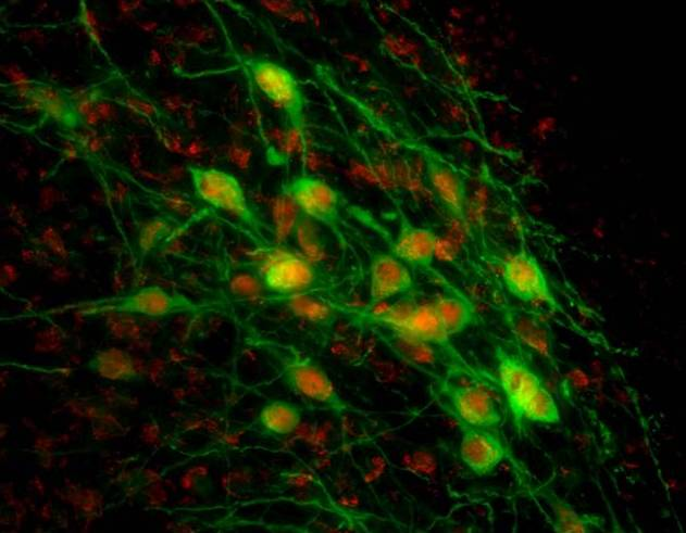 Aldosterone-sensitive "HSD2 neurons" in the nucleus of the solitary tract. HSD2 is labeled in green and MR in red (immunofluorescence staining in rat brainstem tissue).